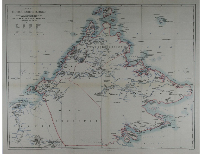 British North Borneo. Original printed colour.